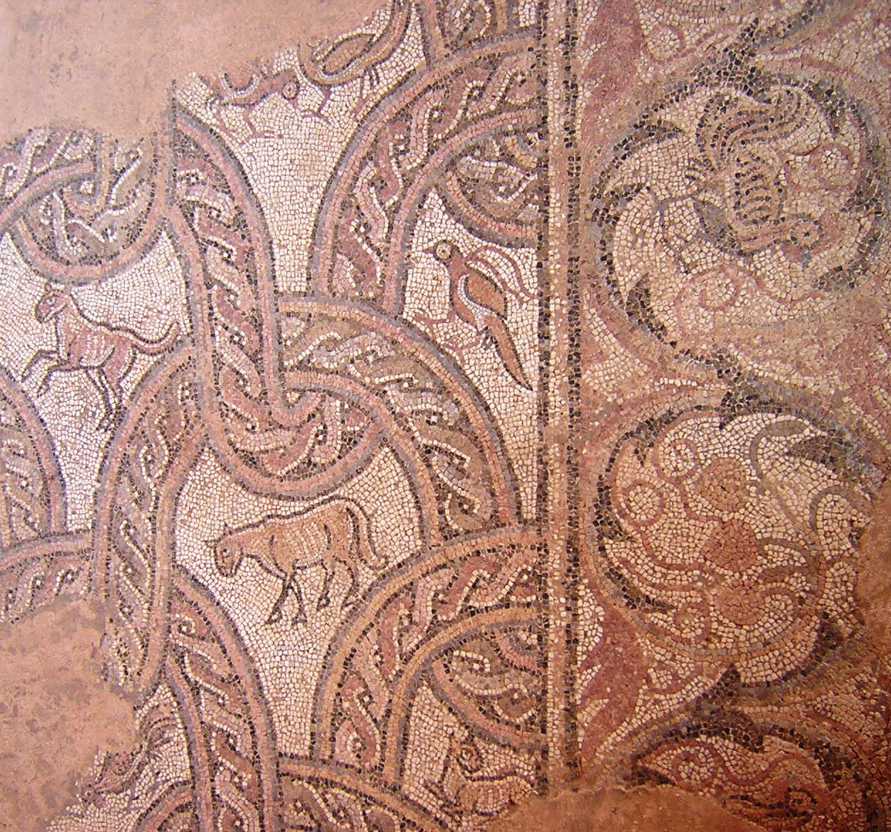 Mosaic in the early Christian basilica at Plaoshnik, Ohrid